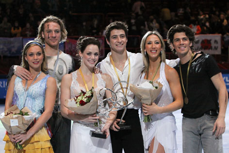 Nathalie Péchalat / Fabian Bourzat (2), Tessa Virtue / Scott Moir (1), Sinead Kerr / John Kerr (3) at the 2009 Trophee Eric Bompard.